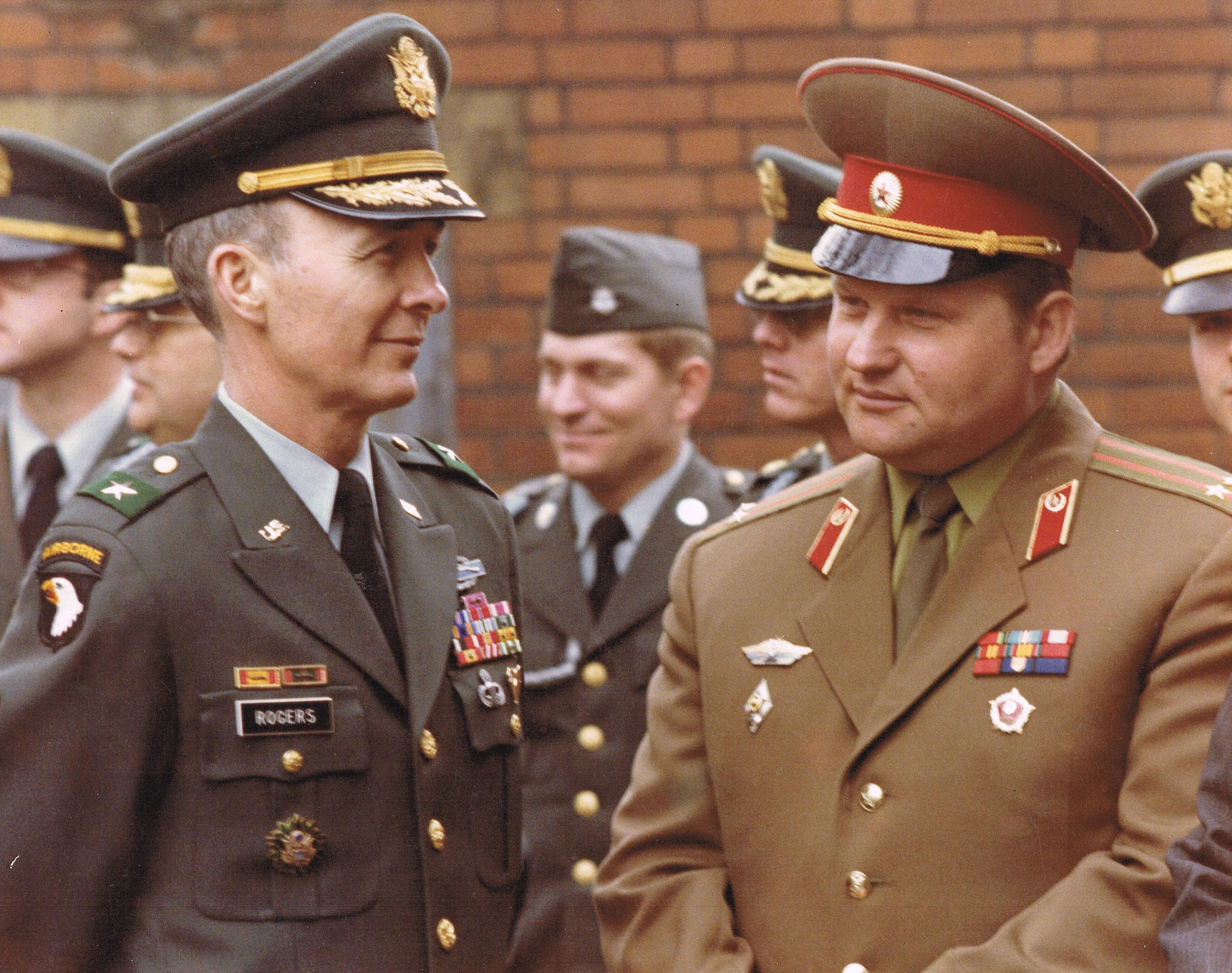 MG John E. Rogers (USA), lieutenant Colonel Alexander Dorofeev. (Soviet Union). W.Berlin. 1981 To the left of MG Rogers (above his right shoulder) is LTC Harvey Buckles, commander of the 4th Battalion , 6th Infantry.